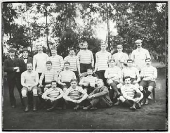 Team photo of the British Isles rugby union team on the tour of South Africa in 1896.